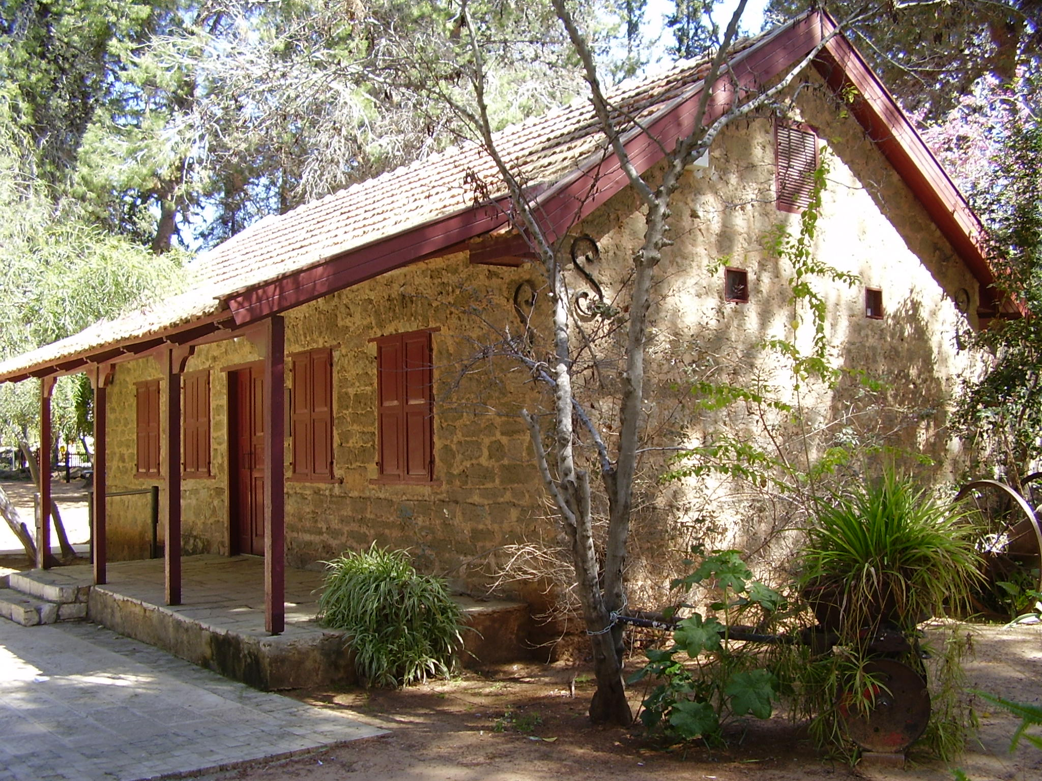 Founders house in Savyon